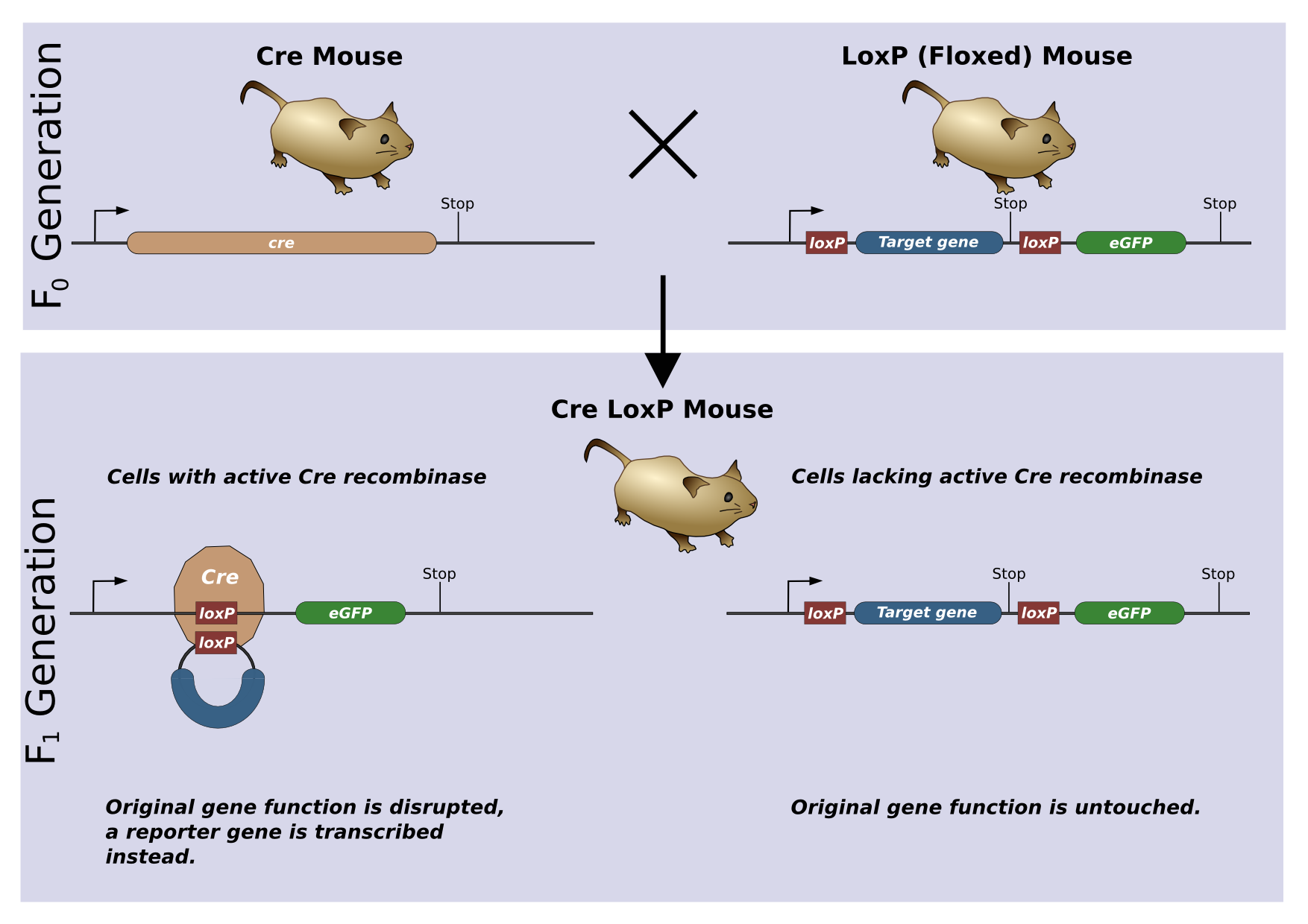 Illustration of a model experiment in genetics using the Cre-lox system. The function of a target gene is disrupted by a conditional knock out. Typically such an experiment would be performed with a tissue specific promoter driving the expression of the cre-recombinase. (Or with a promoter only active during a distinct time in ontogeny.)